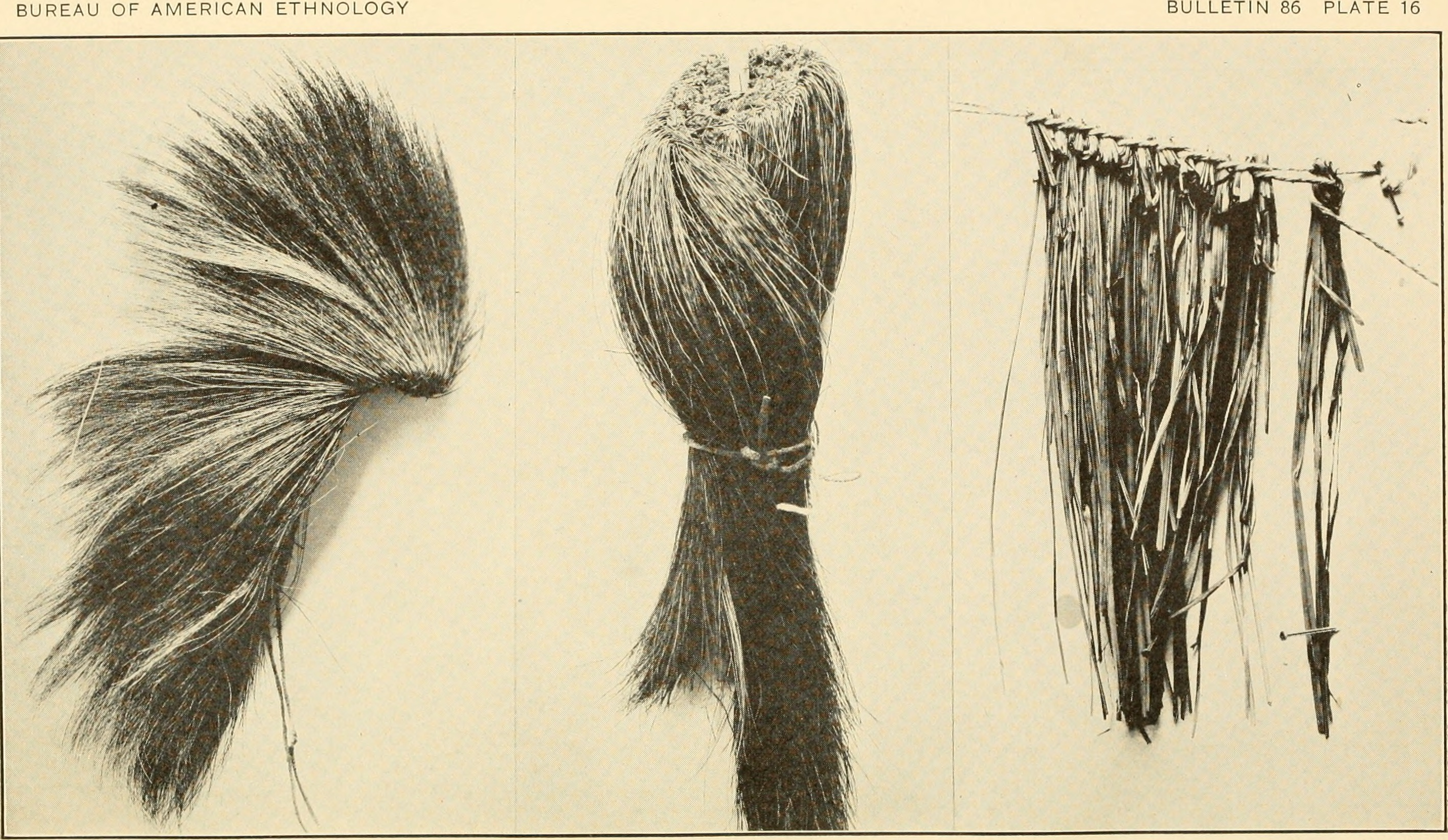 Title: Bulletin Year: 1901 (1900s) Authors: Smithsonian Institution. Bureau of American Ethnology Subjects: Ethnology Publisher: Washington : G. P. O. Text Appearing Before Image: ' Text Appearing After Image: '